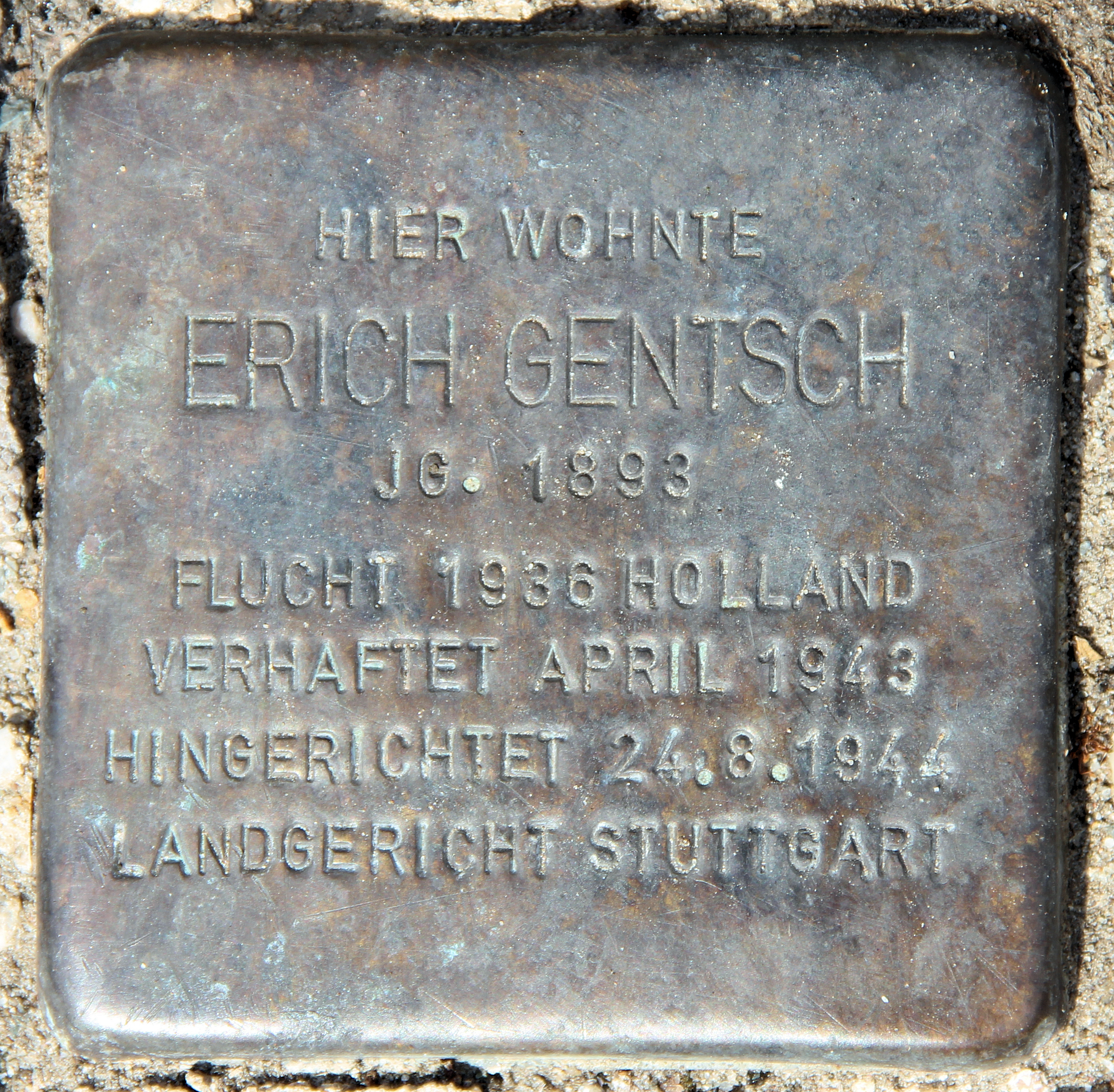 "Stolperstein" (stumbling block), Erich Gentsch, Äneasstraße 8, Berlin-Mariendorf, Germany Koordinate:52°26′47″N 13°23′58″E / 52.44639°N 13.39944°E